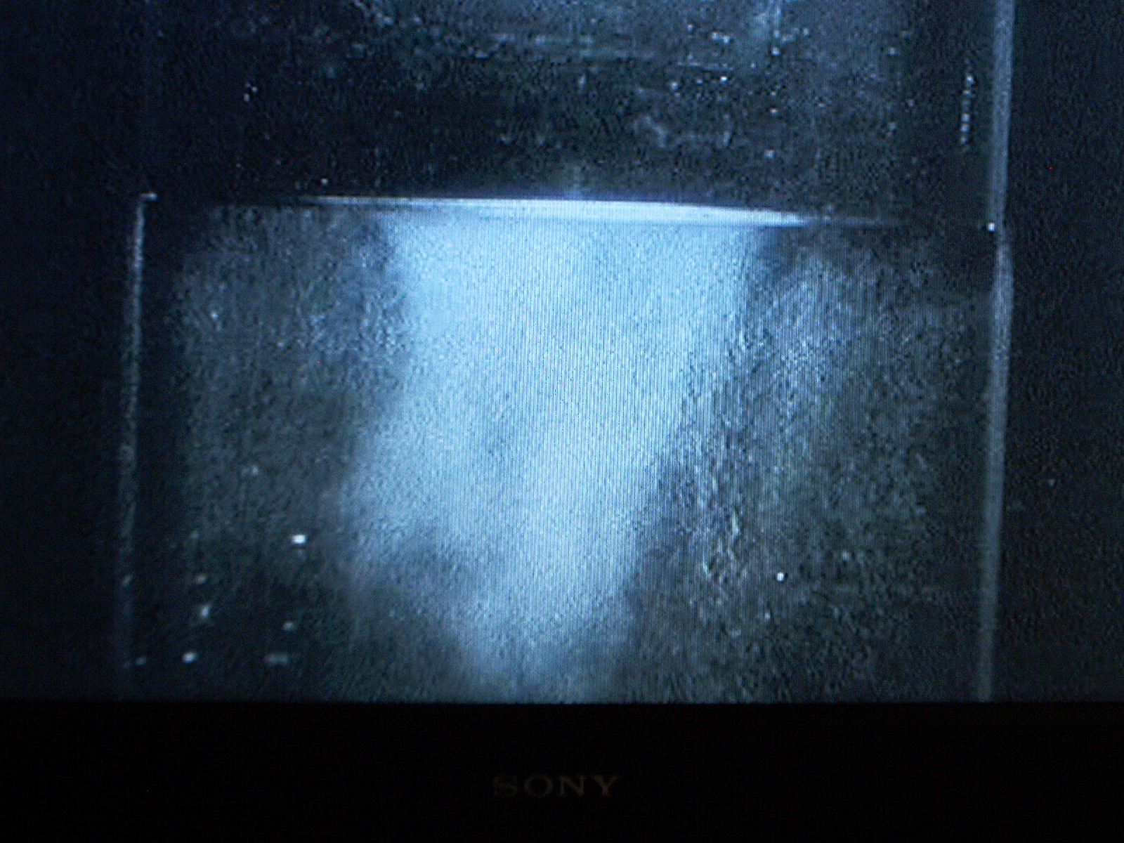 Liquid helium in a vacuum bottle. The liquid is at the normal boiling point (4.2K,1 atm.), boiling slowly.